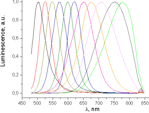 Luminescence spectra of CdTe quantum dots of different sizes from ca. 1 nm (left curve) to ca. 7 nm (green curve)